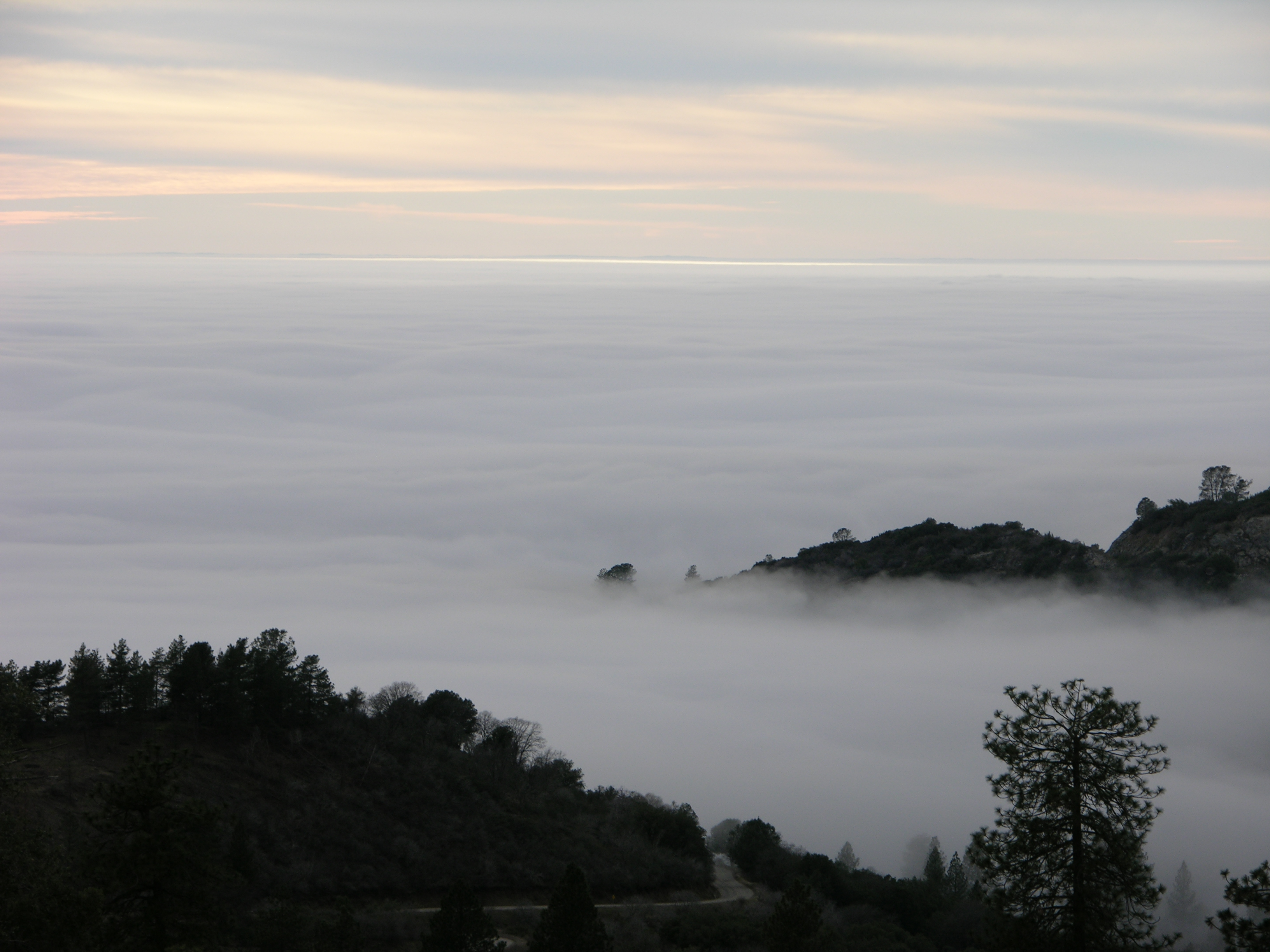 This huge inversion sea filling up the Great Valley (San Joaquin Valley and Sacramento Valley) can be seen anually this time of year on satellite photos. Flickr's map is wrong. I'm on Tollhouse Road. The big road is simply "Highway 168."